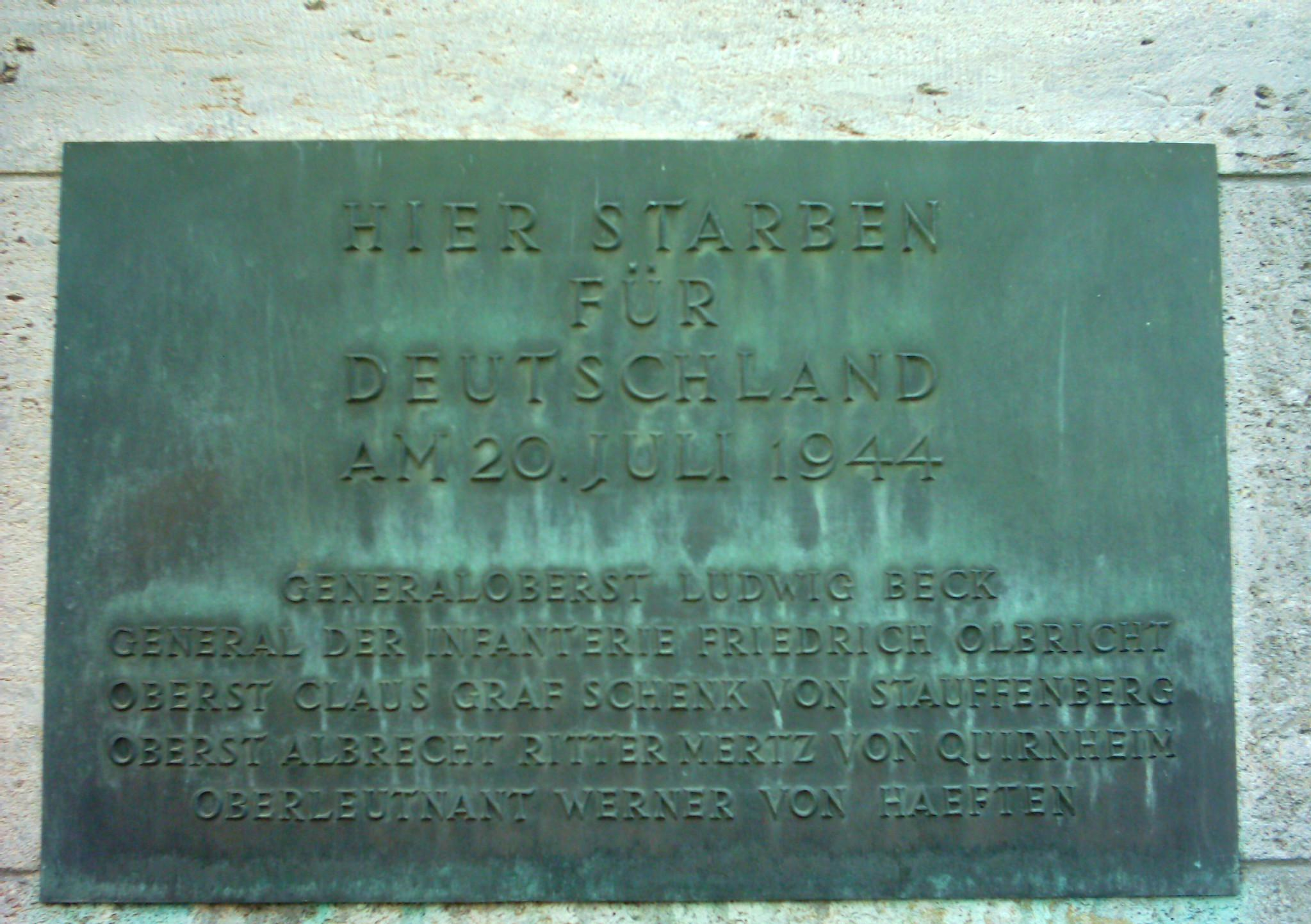 A plaque at court of Bendlerblock (German Resistance Memorial Center) in Berlin.